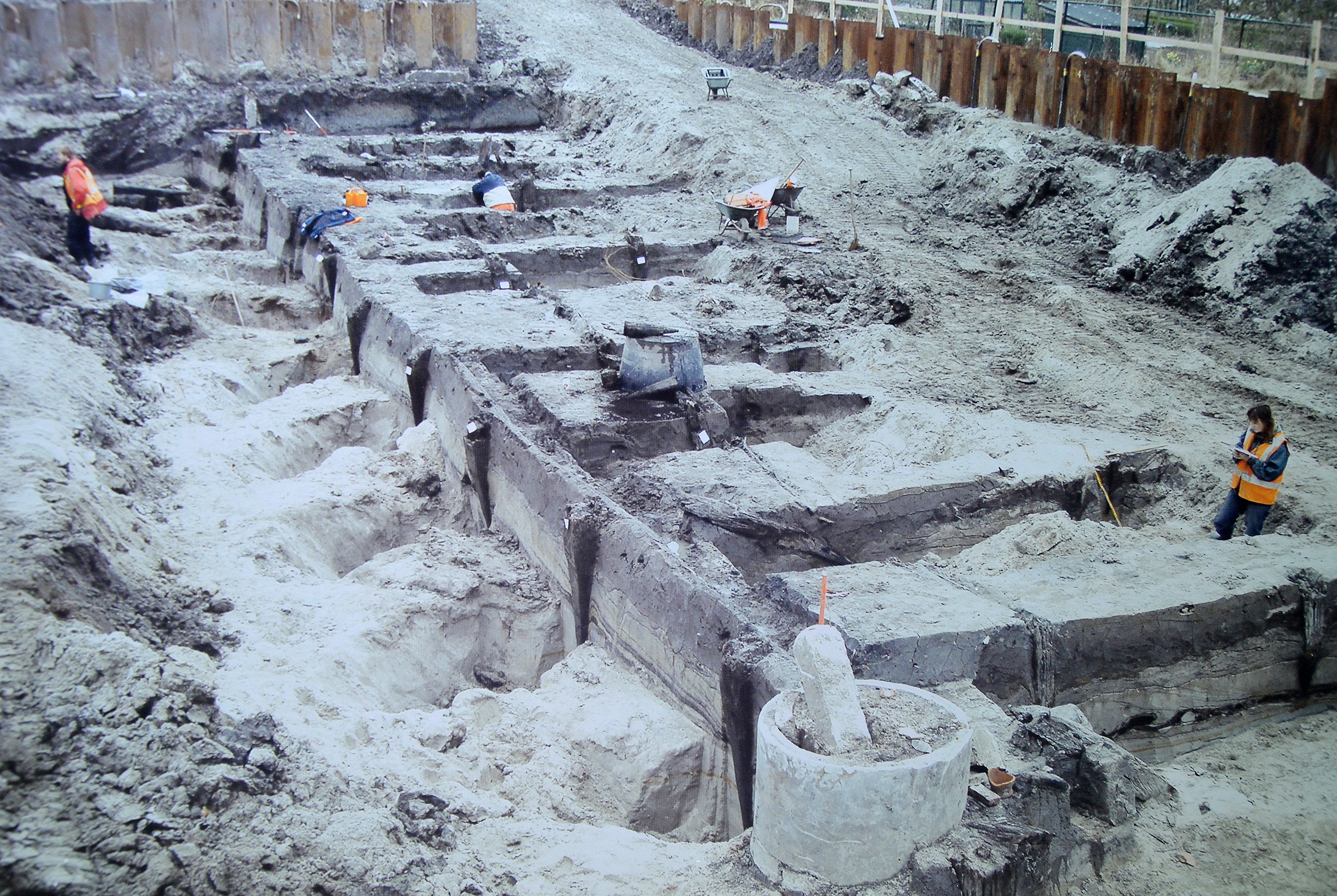 During the 2007 / 2008 excavation, a harbour was discovered in the south-eastern part of the site of Forum Hadriani. The harbour was used amongst others for transport of heavy building material, as can be concluded from the part of a large pillar that was found in the harbour. This type of heavy transport was one of the tasks of the Lower Rhine navy, the Classis Germanica Pia Fidelis. The location close to the limes, the heavy construction of the quay-wall and the large amount of C.G.P.F brick stamps produced for use by this navy found in Forum Hadriani all suggest that the harbour was in fact a military installation.